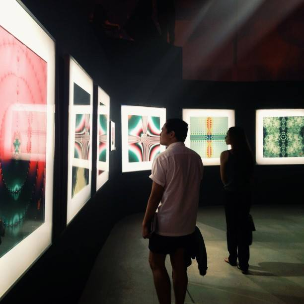 Burst new media art show of fractal artist Medge Olivares at White Space